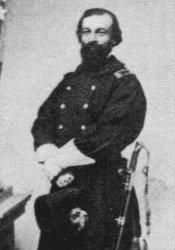 1861 Photo of Brigadier General Joseph Pope Balch from genealogical publication by his daughter.